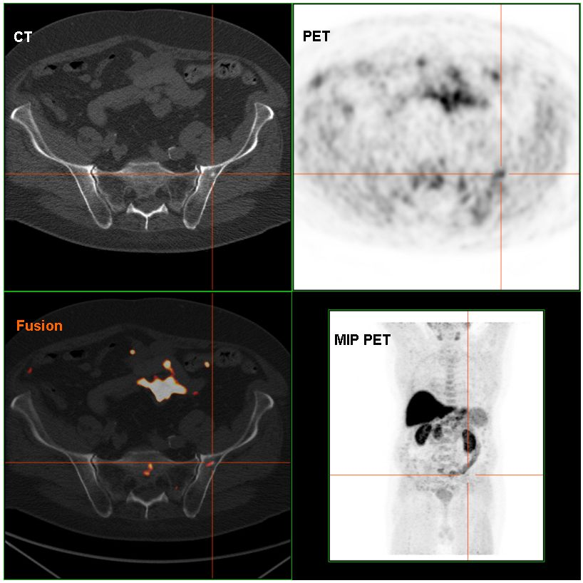 Osteoplastic bone metastasis of a histologically confirmed prostate cancer. Choline uptake in PET correlates with hyerdense structure. Axial display of CT, PET und PET/CT. SUV = 3,4